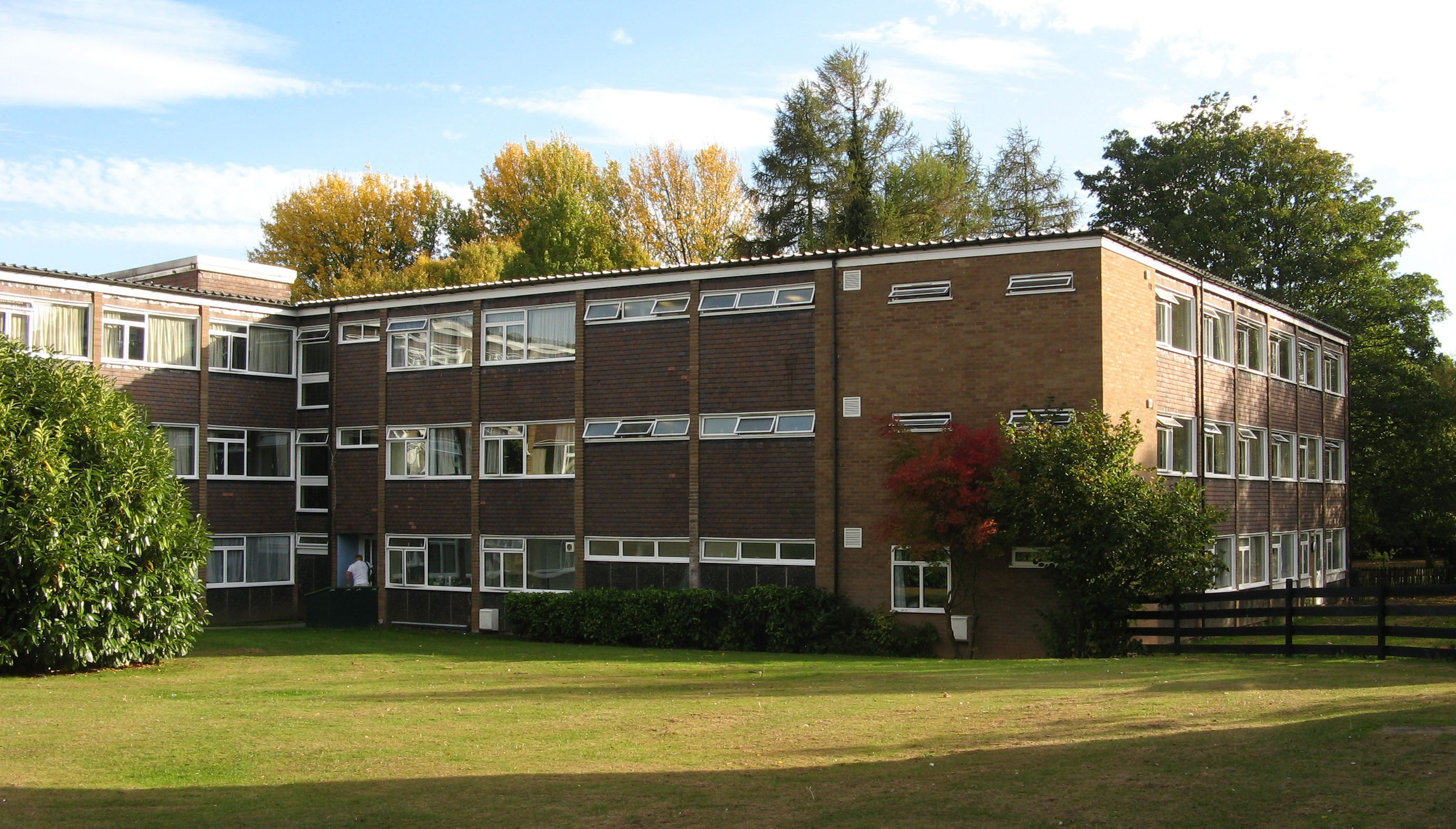 Hampton hall of residence, Westwood campus, University of Warwick.